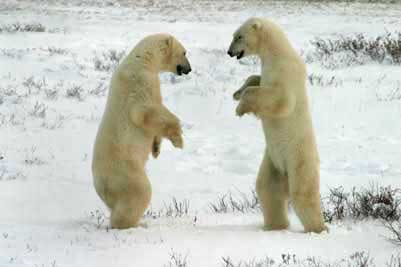 Two polar bears sparring. Image taken near Churchill, Manitoba, Canada. Colour adjustments by Spikey.